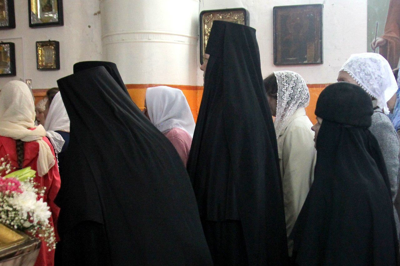 Зубовка